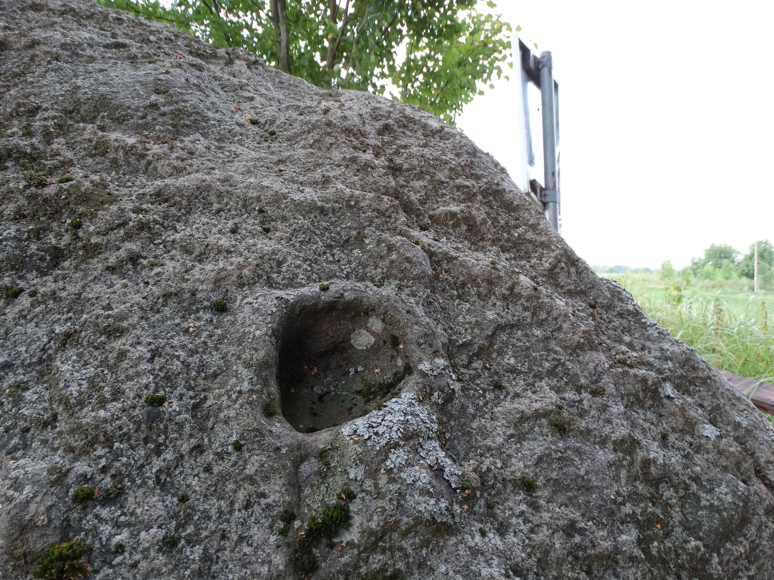 Žiezdriai Stone, Utena District, Lithuania